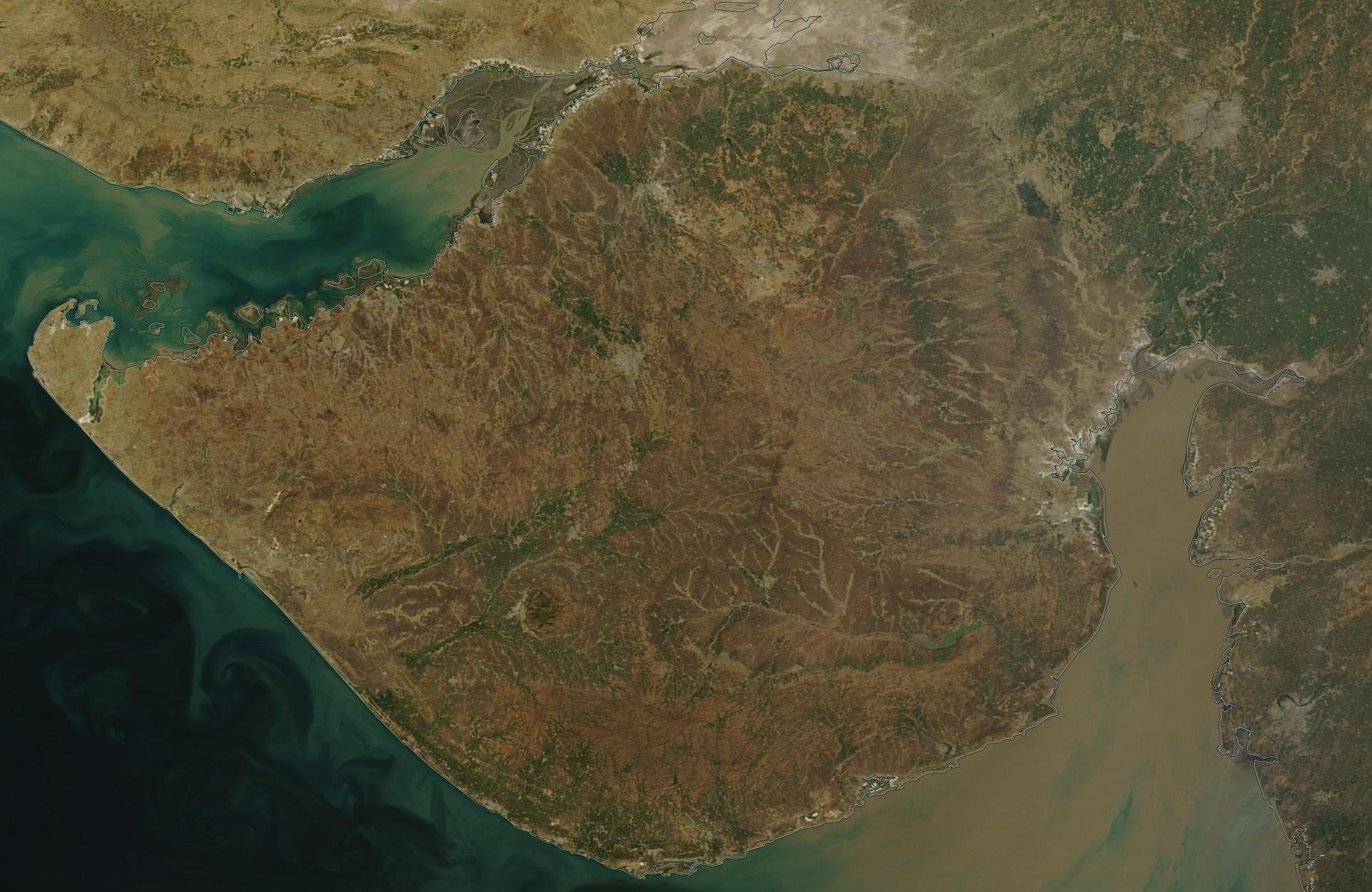 Saurashtra, Gujarat, India Satellite Map as of 3 February 2015